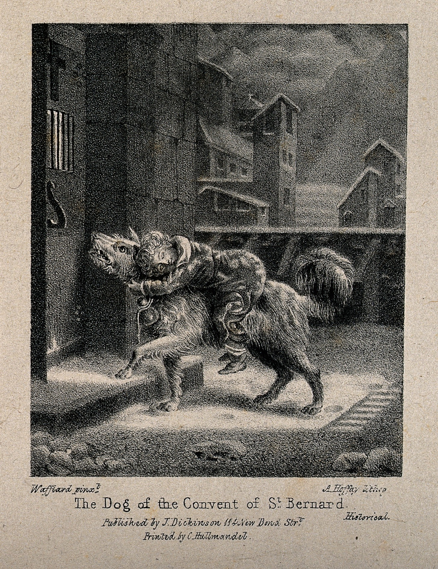 A rescue dog brings back a weary boy on his back to a hospice. Lithograph by A. Hoffay after Wafflard. Iconographic Collections Keywords: Wafflard; A. Hoffay